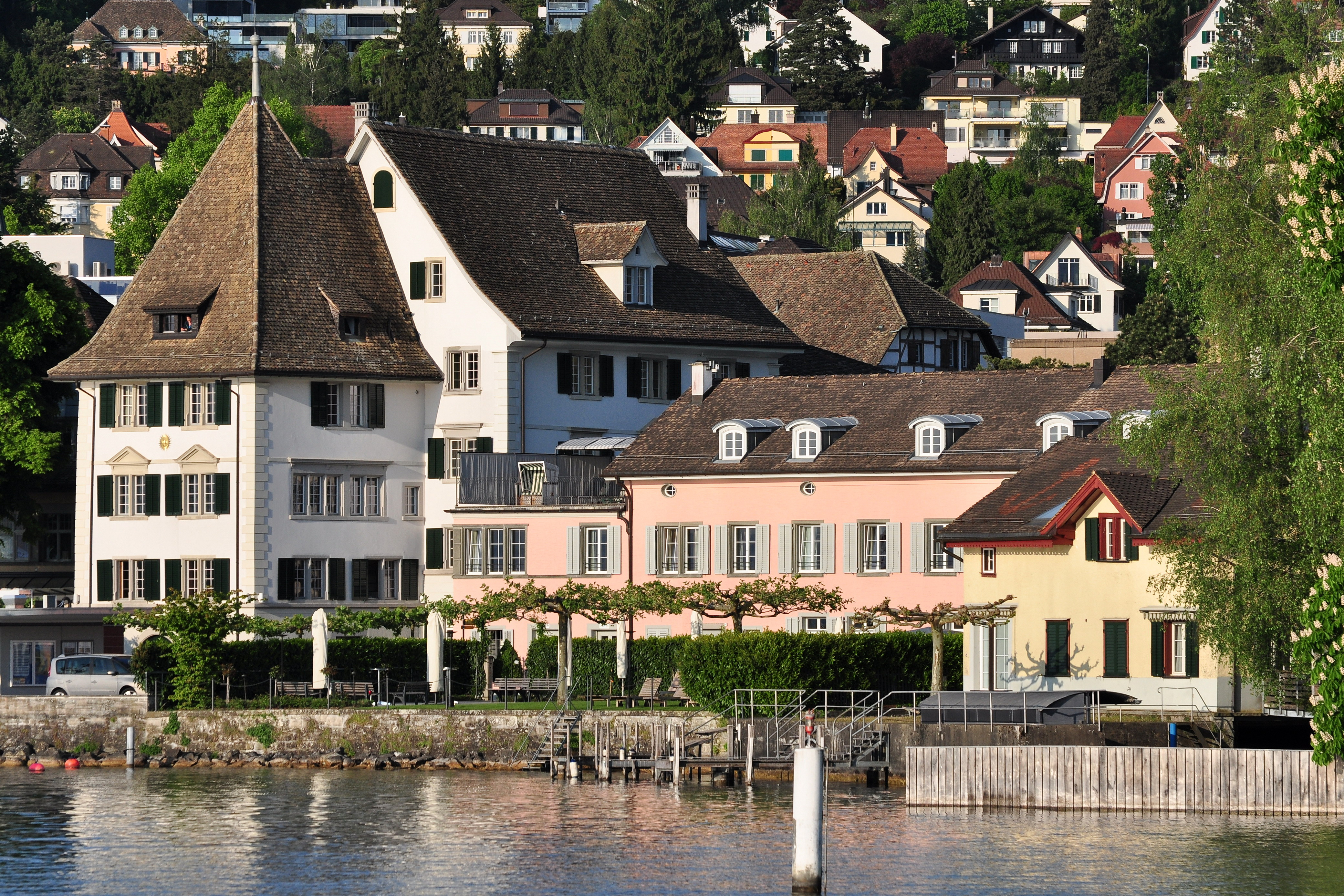 Küsnacht (Switzerland) as seen from ZSG paddle steamship Stadt Rapperswil